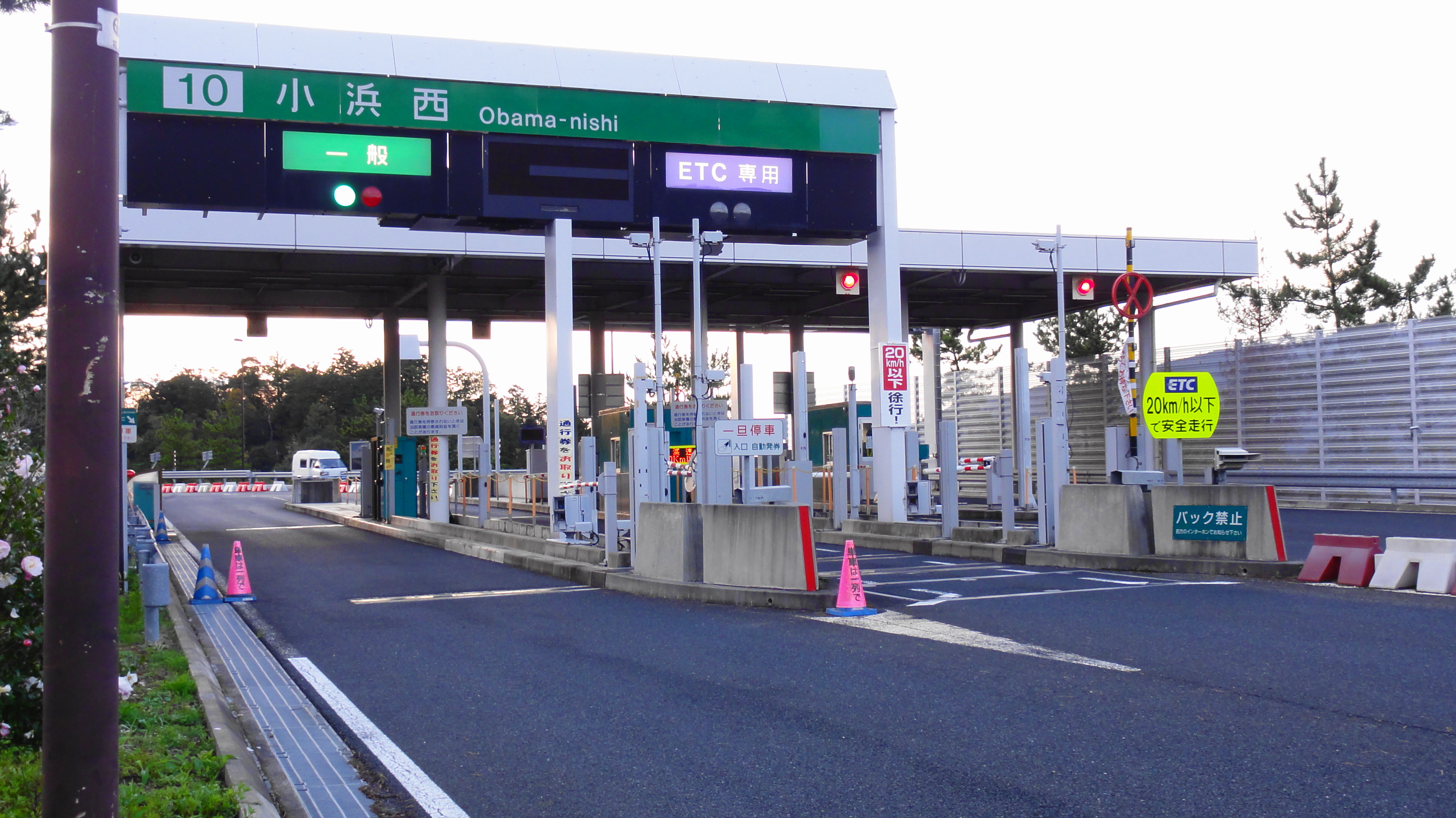 Obama-nishi Inter Change,Fukui Prefecture, Japan